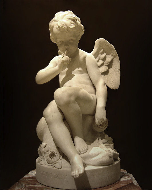 Menacing Love. Marble, commissioned by Madame de Pompadour, exhibited in the 1757 Salon. Background edited